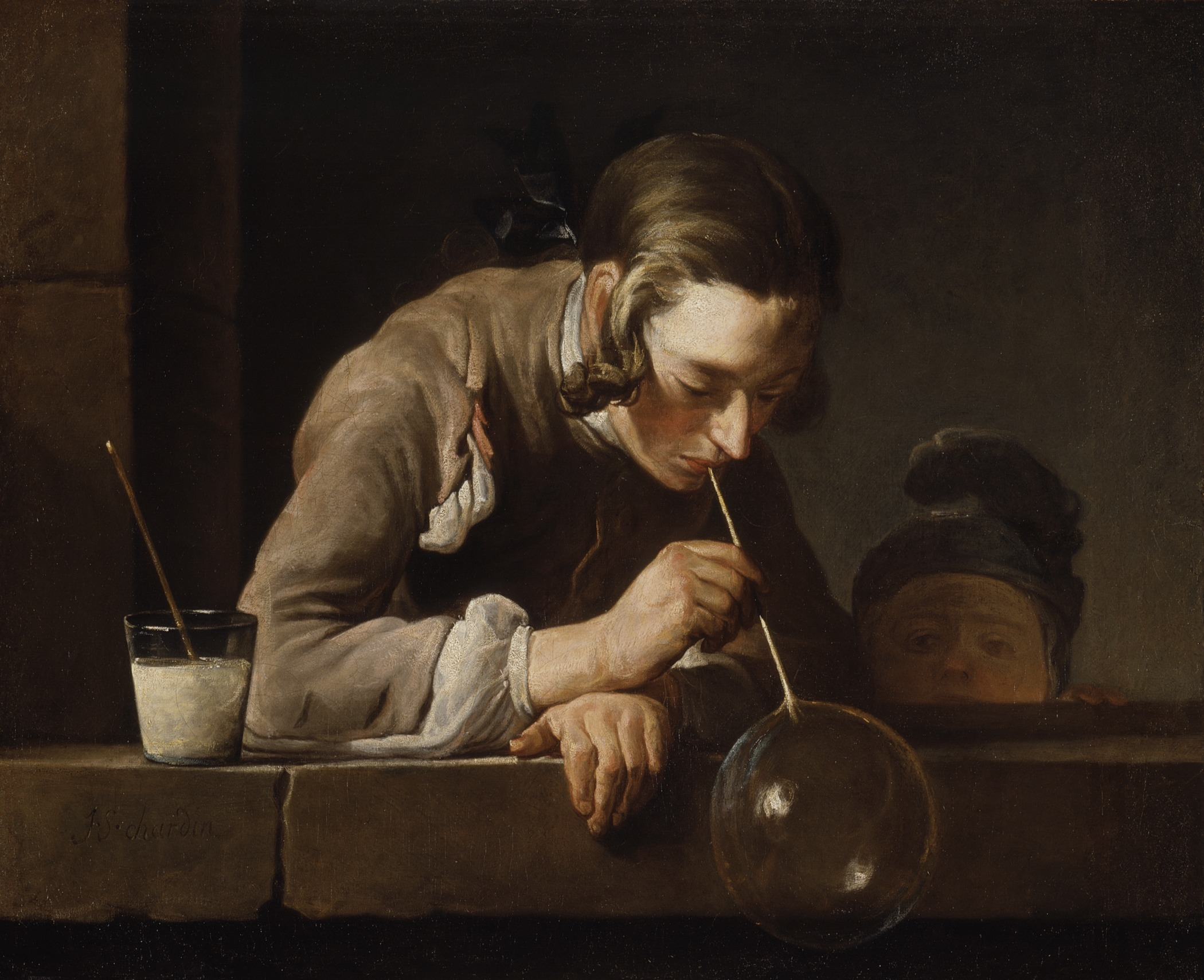 France, after 1739 Alternate Title: Les Bulles de savon (Les Bouteilles de savon) Paintings Oil on canvas 23 5/8 x 28 3/4 in. (60.01 x 73 cm) Gift of The Ahmanson Foundation (M.79.251) European Painting Currently on public view: Ahmanson Building, floor 3